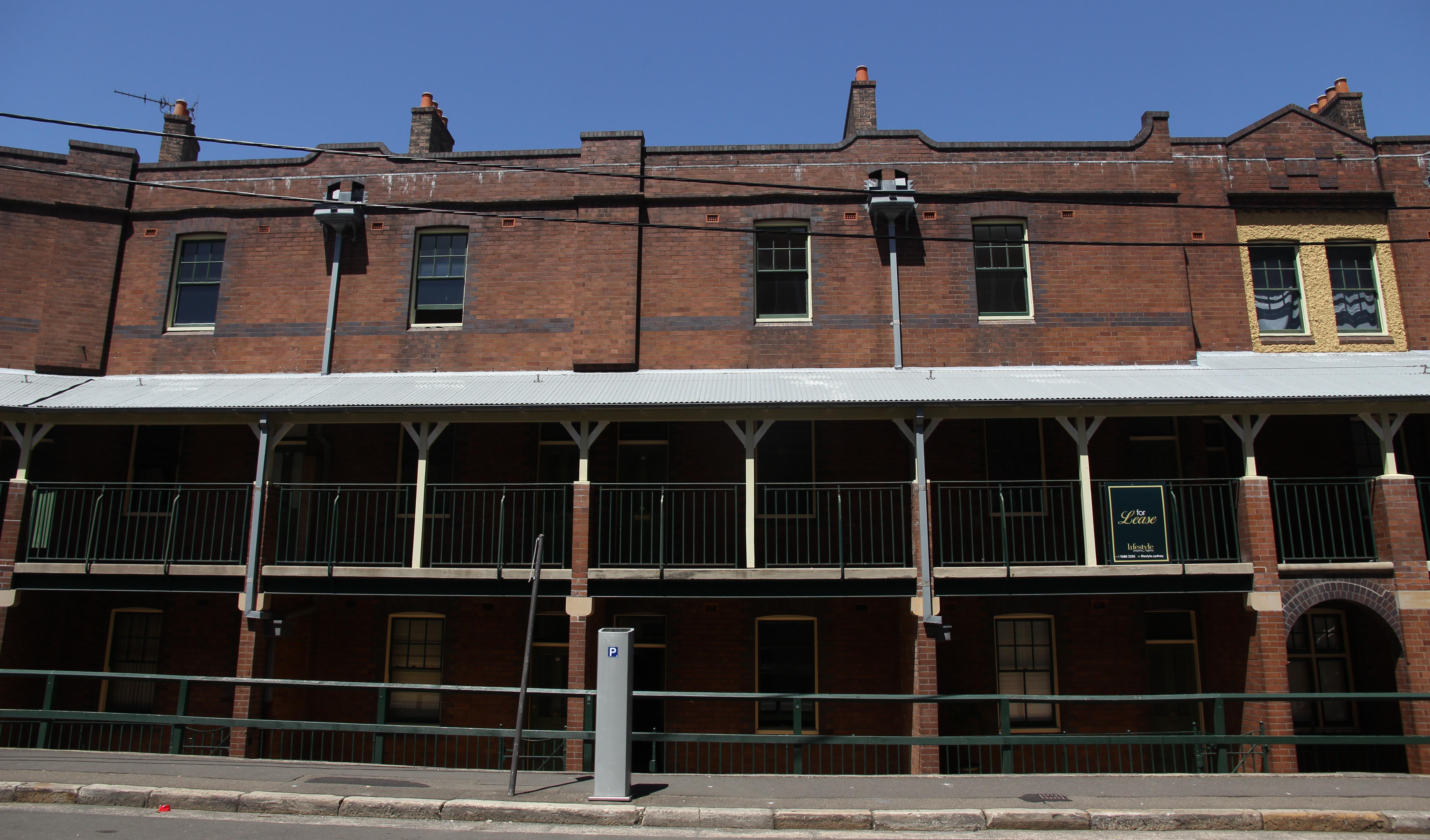 46-56 Gloucester Street, The Rocks, City of Sydney, New South Wales, Australia